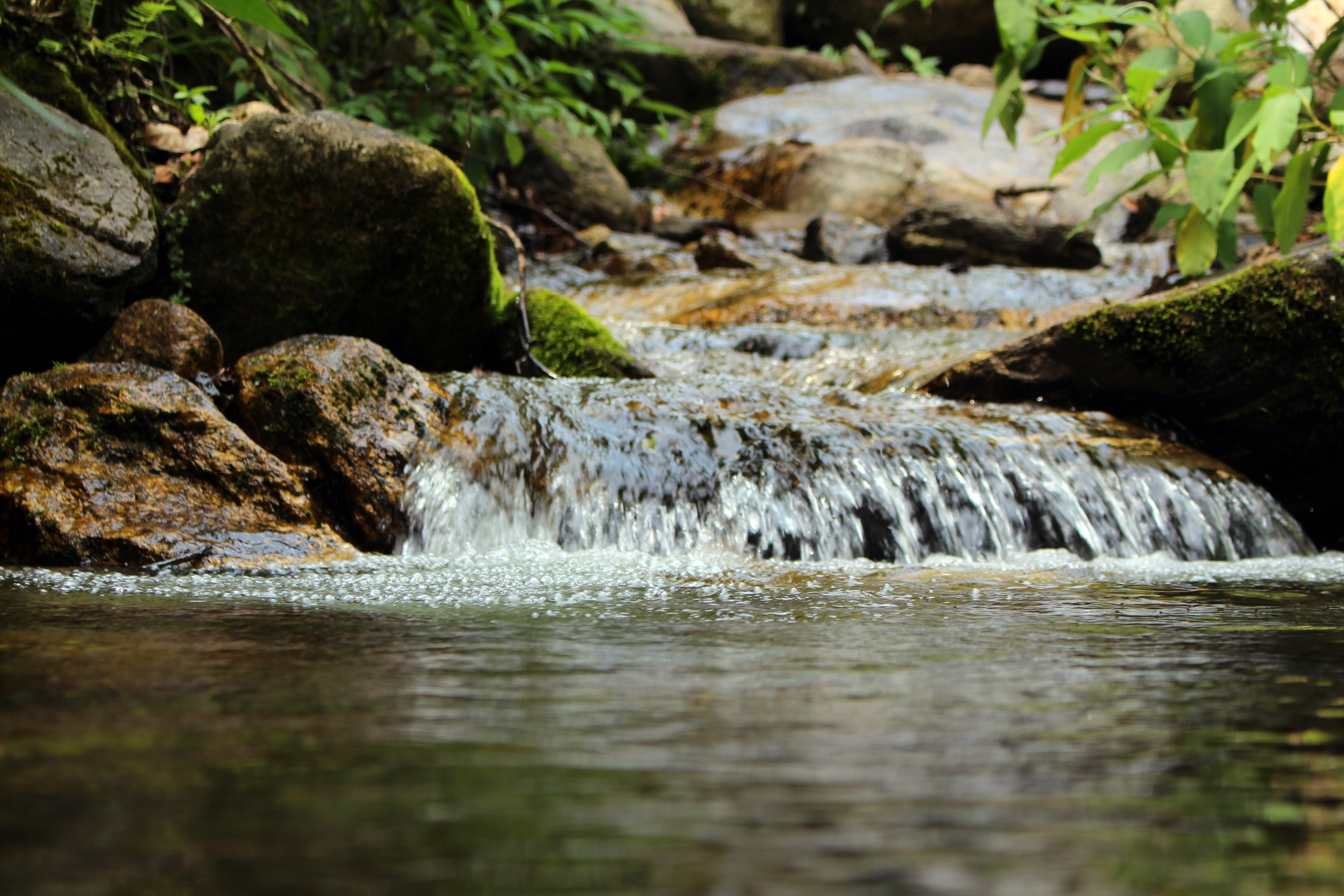 Eventually, all things merge into one, and a river runs through it.